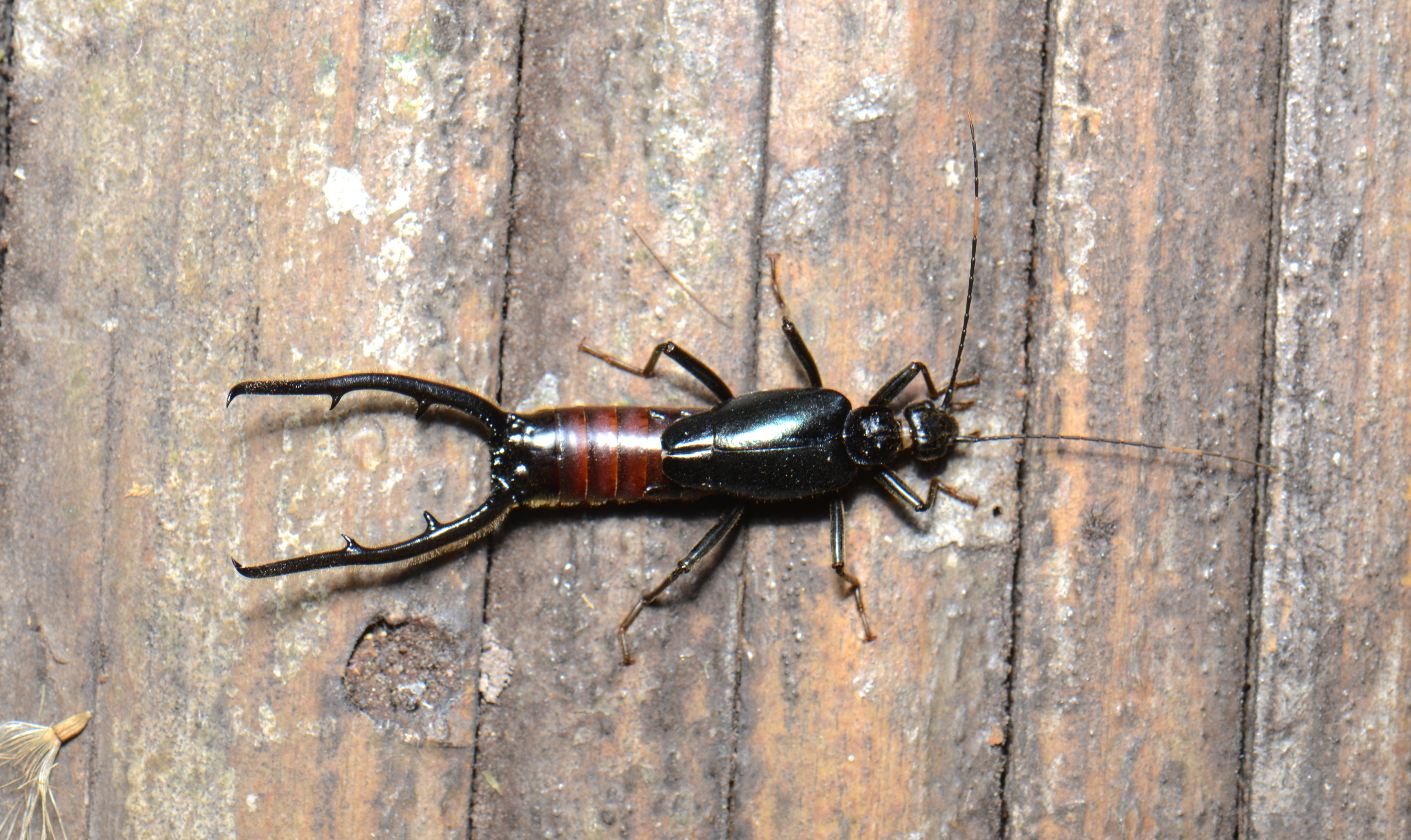 Thanks to Bernard Dupont for ID